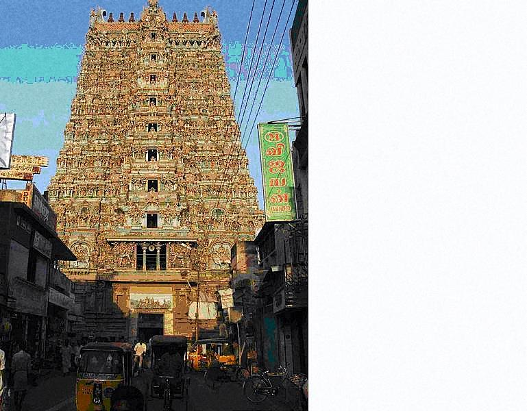 West Tower of Madurai Meenakshiamman Temple